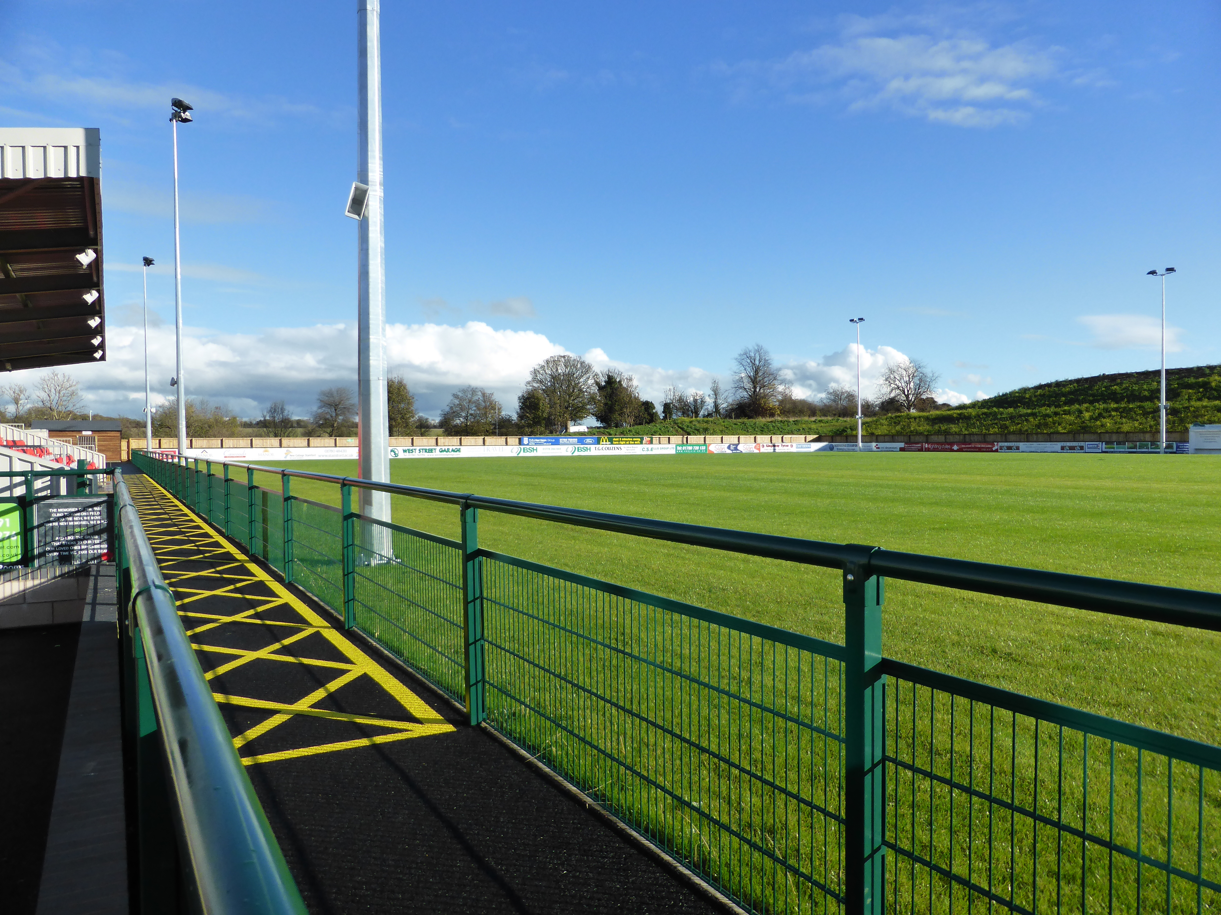 Fan's view